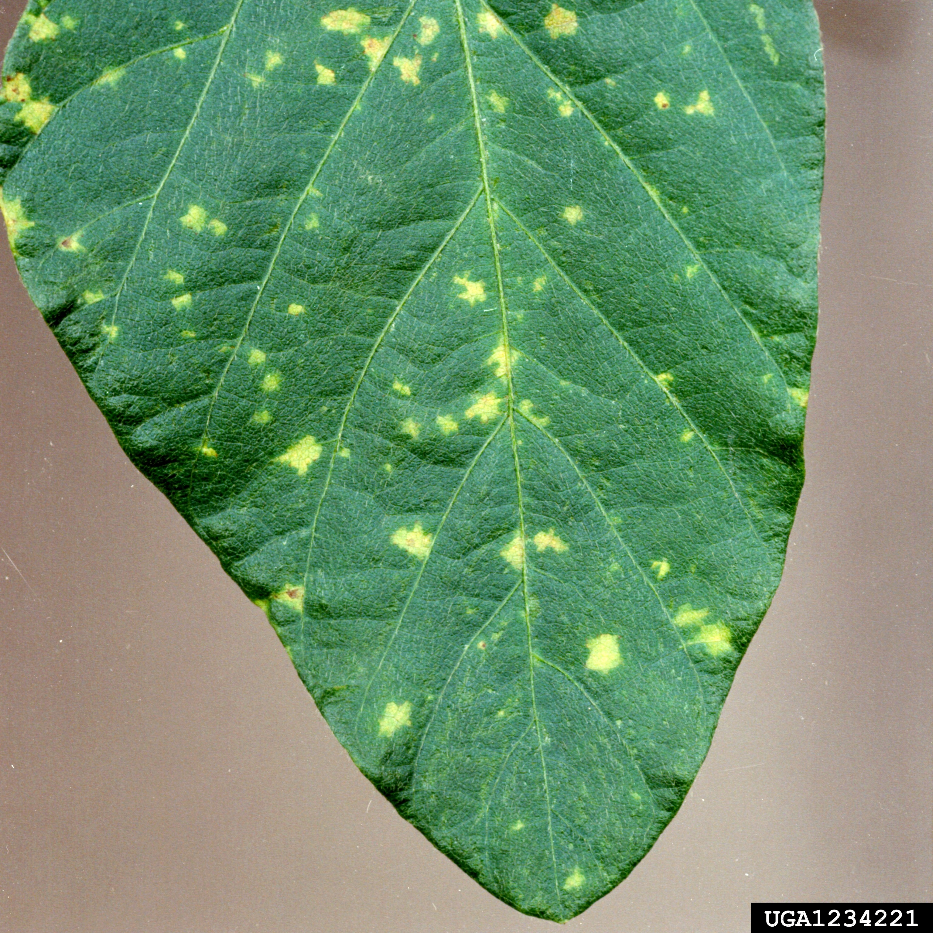 Symptoms of Peronospora manshurica on soybean leaf